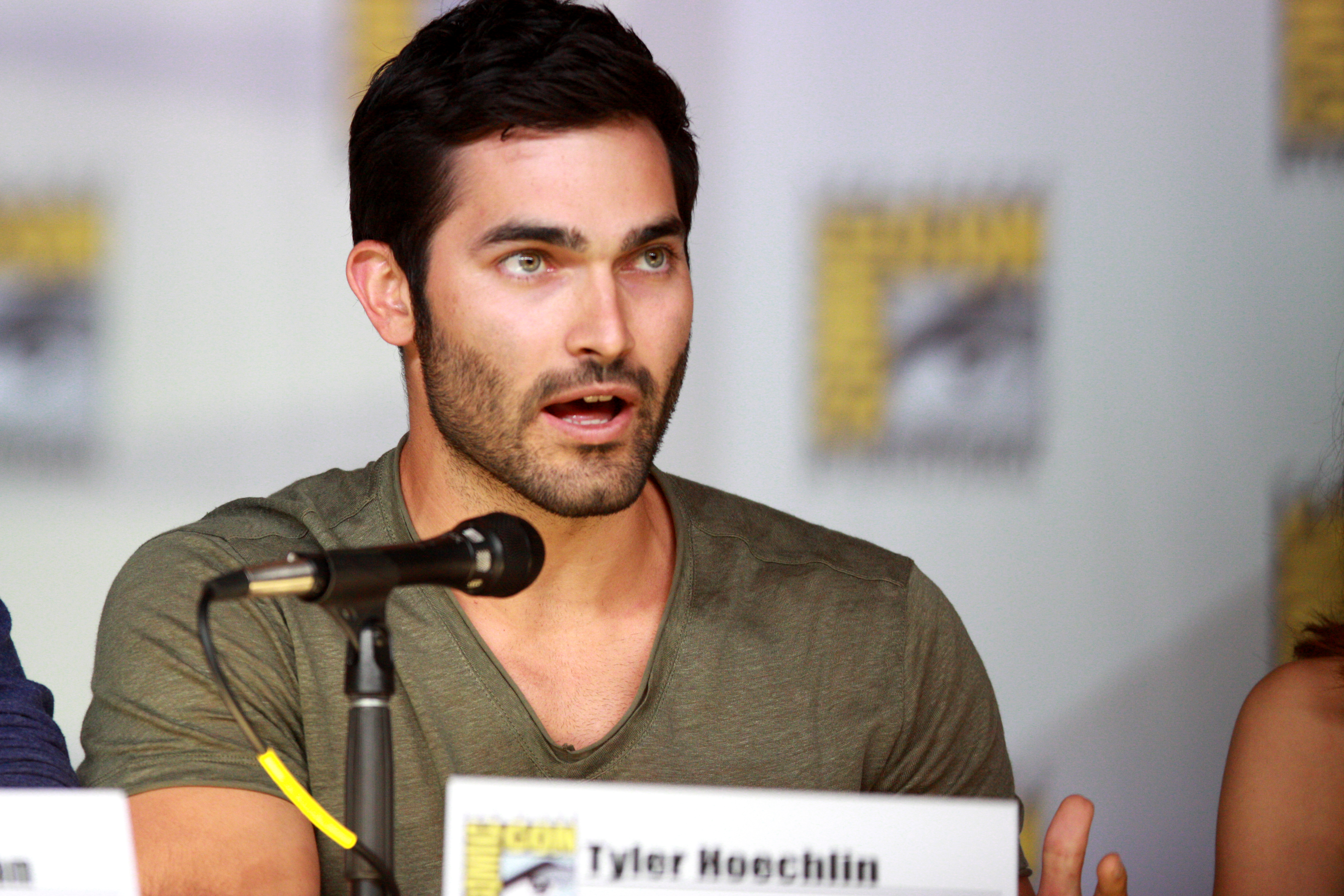 Tyler Hoechlin speaking at the 2013 San Diego Comic Con International, for "Teen Wolf", at the San Diego Convention Center in San Diego, California.